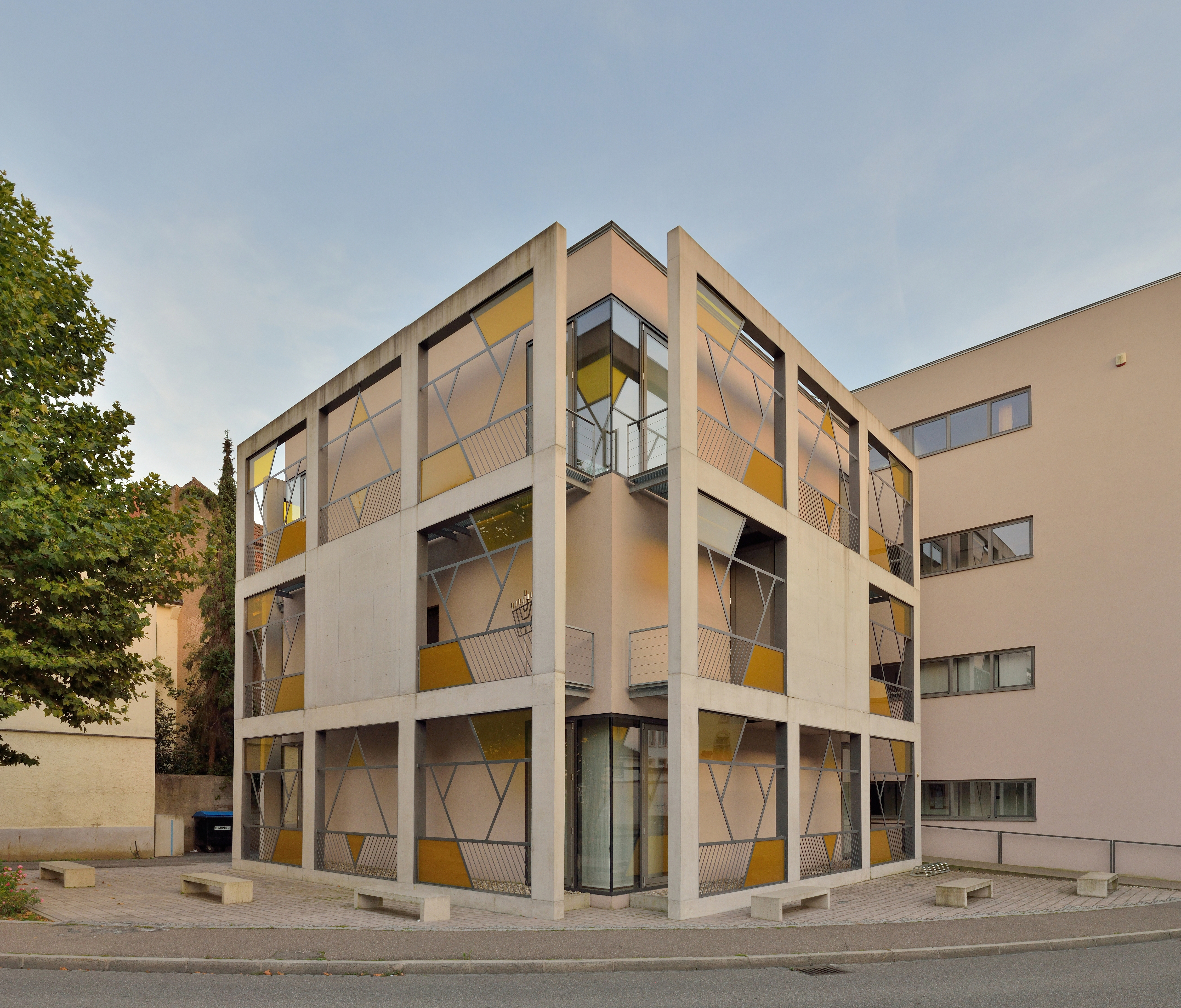 Lörrach: synagogue